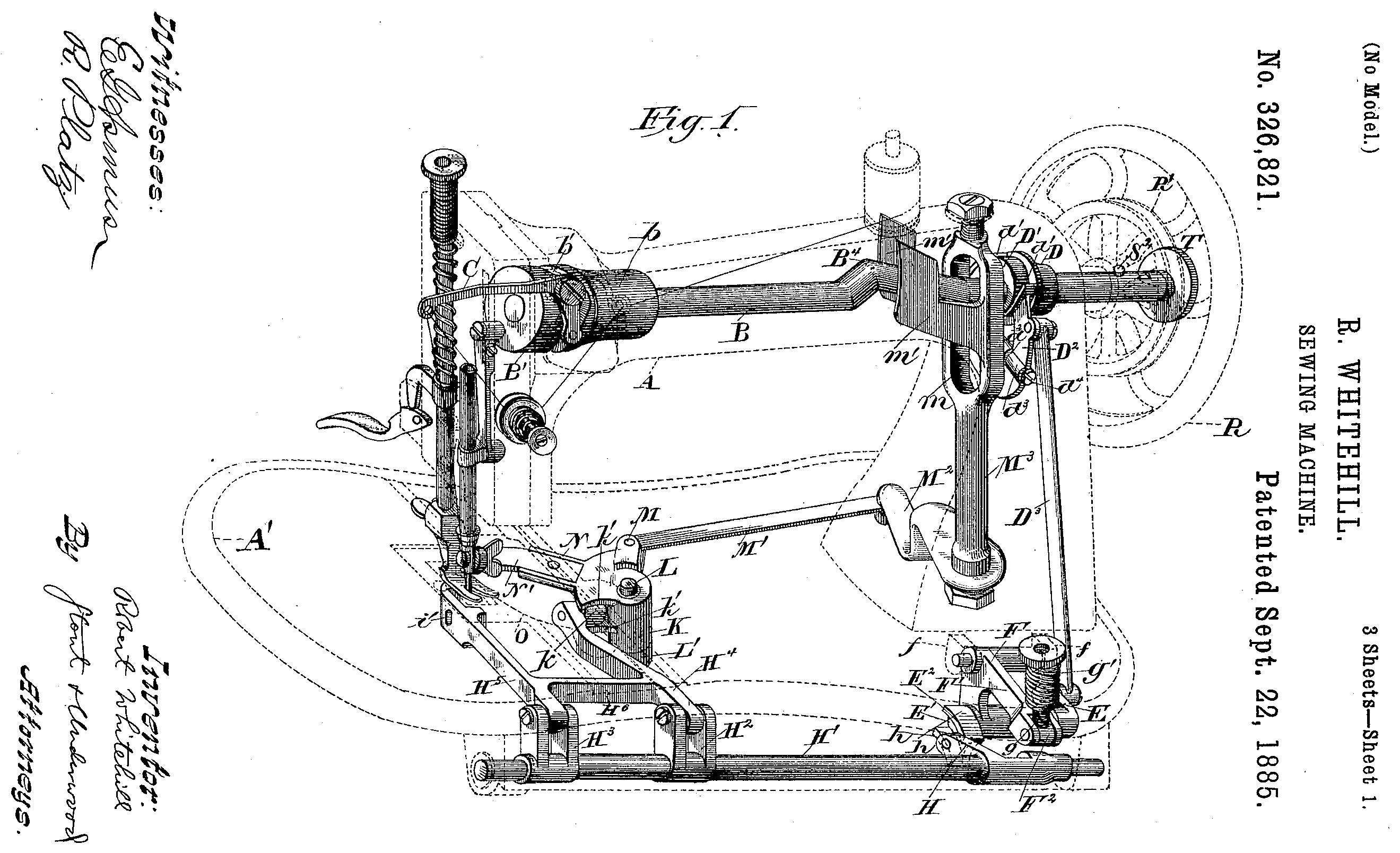 Drawing 1 from US patent 326821